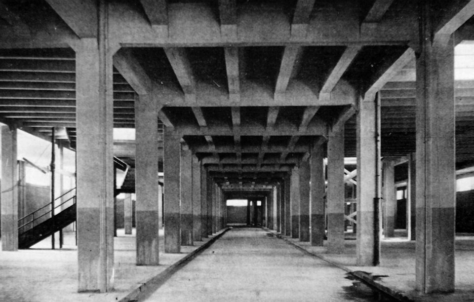 Madrid old Fruits and Vegetables Market, Legazpi square, 1935. Architect: Javier Ferrero